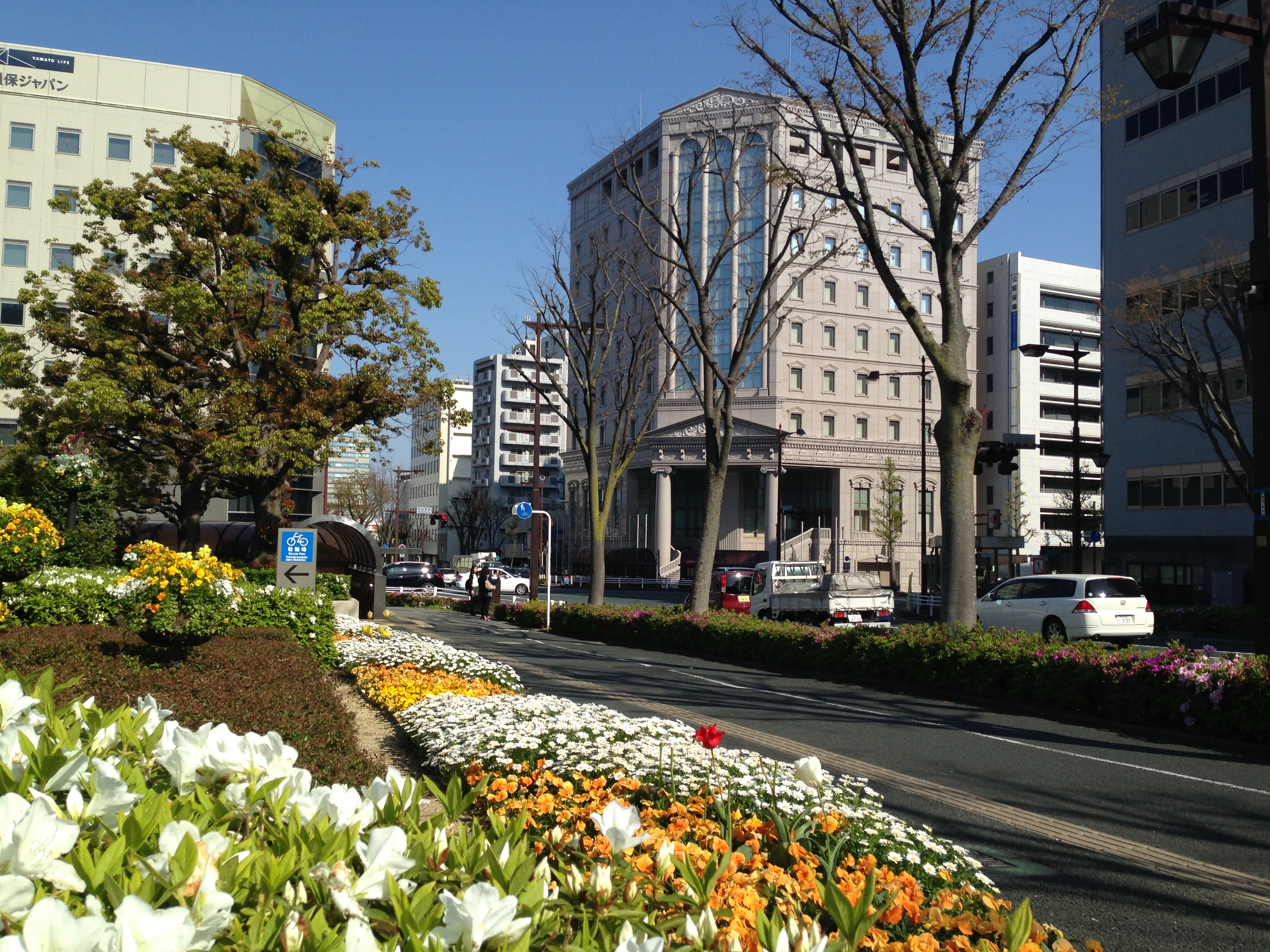 hamamatsu near city hall